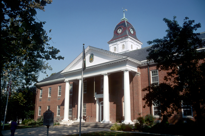 Front of the Caroline County Courthouse, located at 109 Market Street in Denton, Maryland, United States. It is part of the Denton Historic District, which is listed on the National Register of Historic Places.